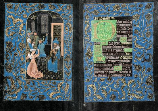 Massacre of the Innocents, Black hours - Morgan Library